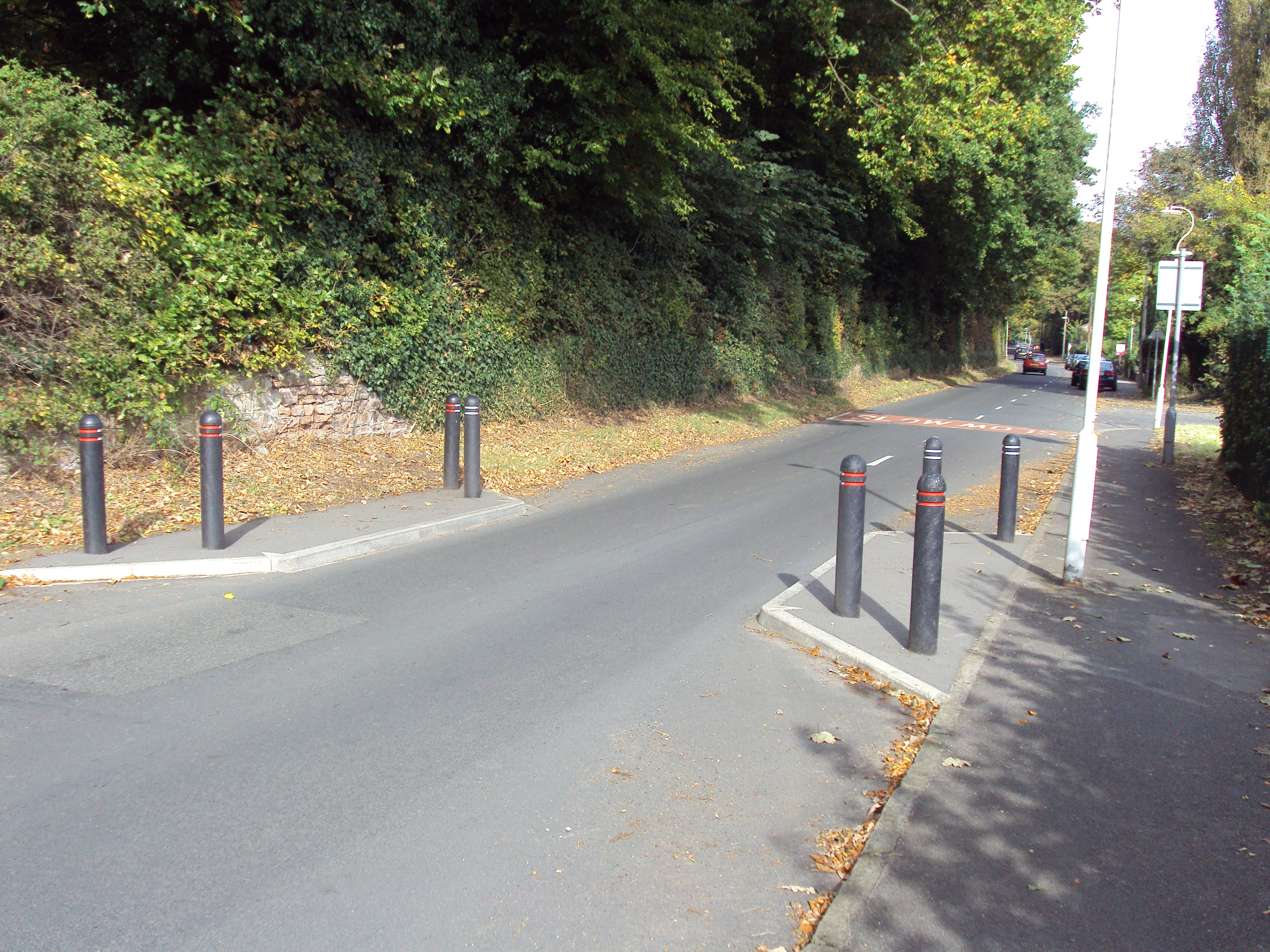 Ferry Road, Eastham, Wirral, Merseyside, England.